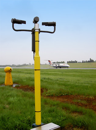 The AGVIS FSI runway visibility (RVR) system.